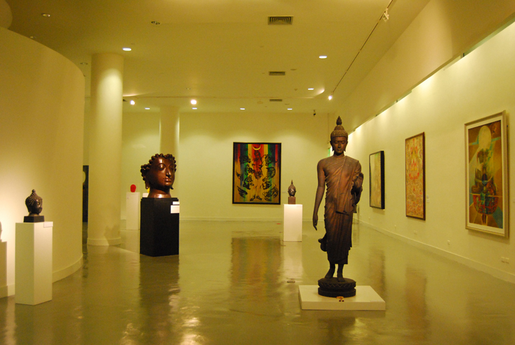 Bangkok Art and Culture Centre, Bangkok, Thailand